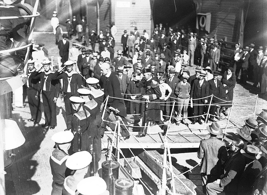 File name: 00024906Title: Dr Rudolf Asmis and Captain Otto Schniewind boarding KÖLNDate issued: 1933-05Physical description: 1 negative : glass, black & whiteGenre: Glass negativesSubject: Sydney Harbour; German cruiser KÖLNNotes: Title from information provided by the Australian National Maritime Museum on the negative or negative sleeve. Date supplied by cataloger.Collection: Samuel J. Hood Studio collectionLocation: Australian National Maritime Museum’s